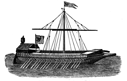 Venetian Galley (14th century)